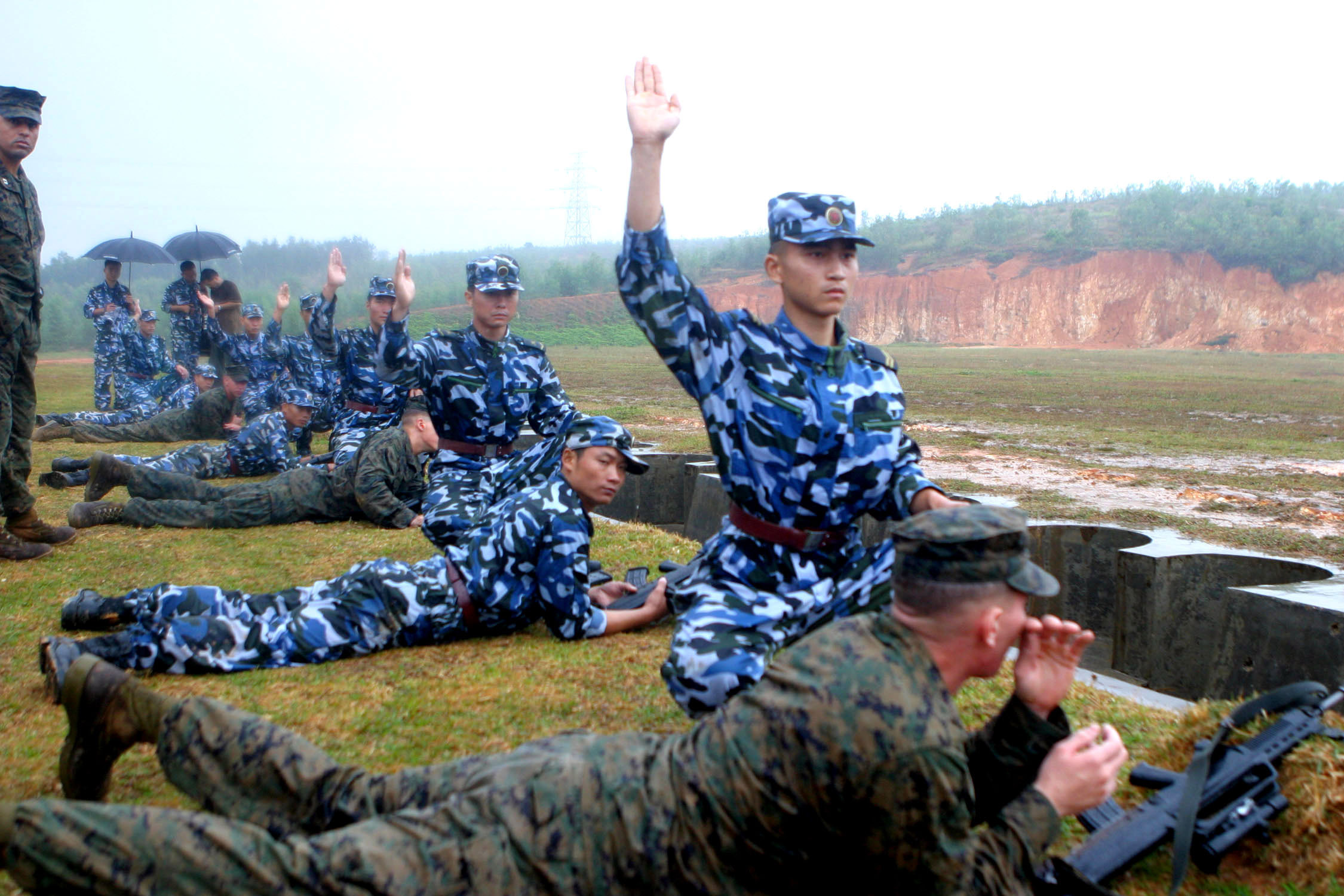 Zhanjiang, People's Republic of China (Nov. 16, 2006) - U.S. and Chinese Marines shoot the type-95 rifle at the People`s Liberation Army (Navy)(PLA (N)) 1st Marine Brigade in Zhanjiang, China. The range was one of the last events to take place as part of “Marine Day,” a day for U.S. and PLA (N) Marines to get together and learn from one another and build camaraderie with each other.